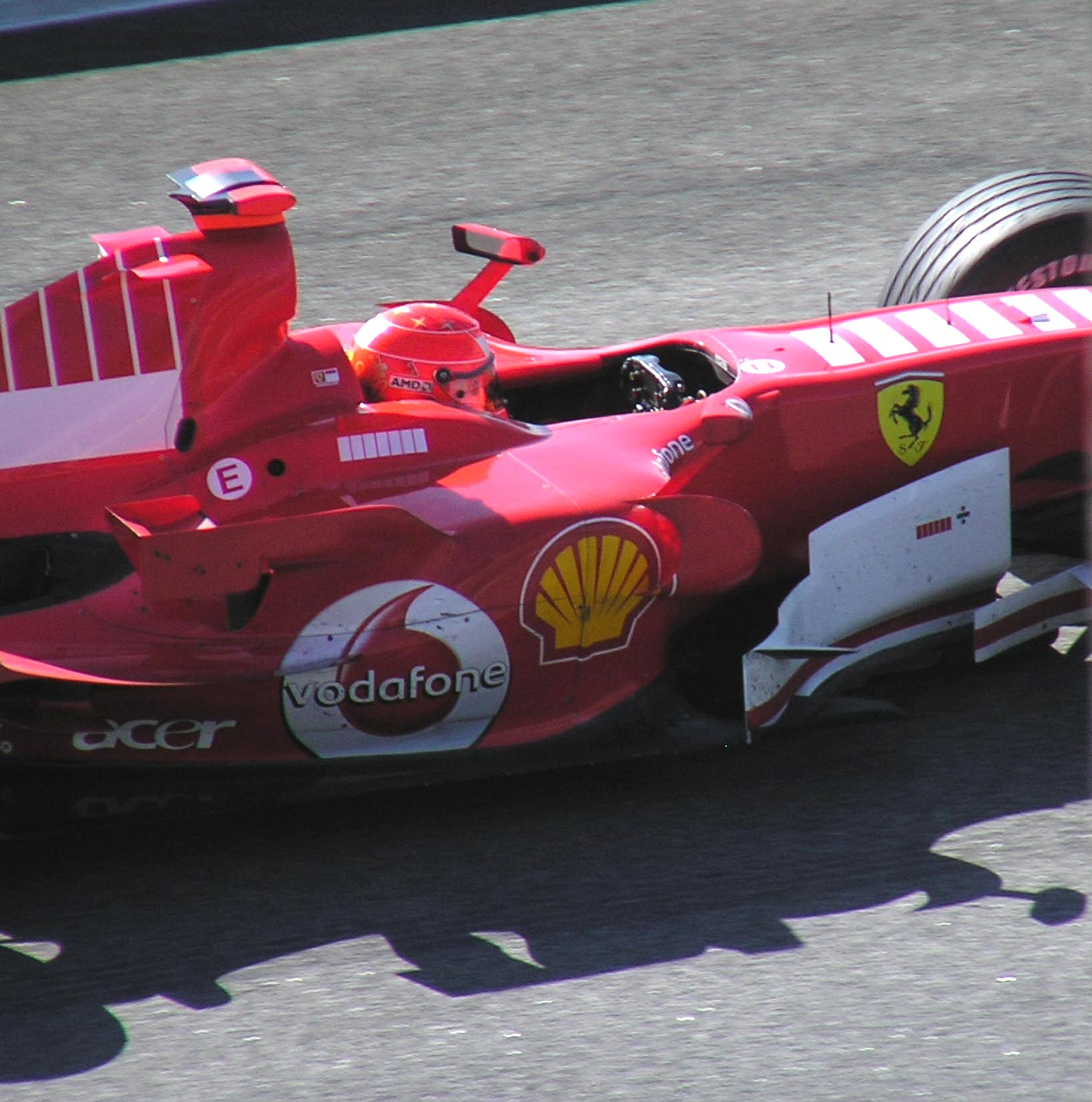 Formula One 2006 Rd.18 Interlagos: #5 Michael Schumacher (Scuderia Ferrari), after the end of race